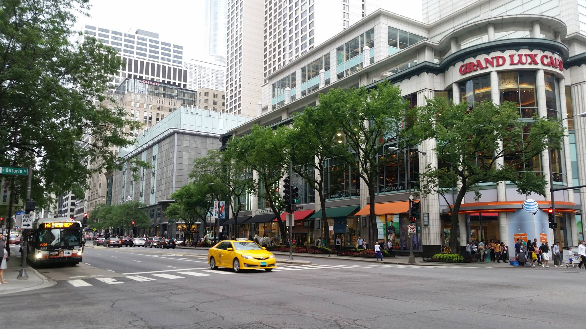 Michigan Avenue - Chicago